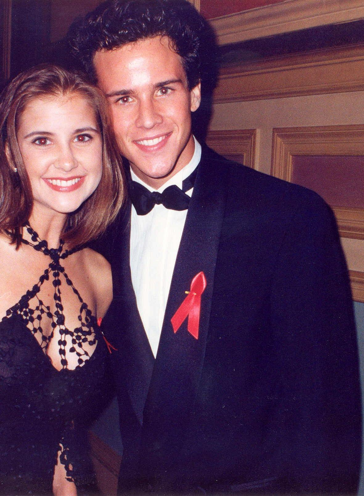 Scott Weinger.